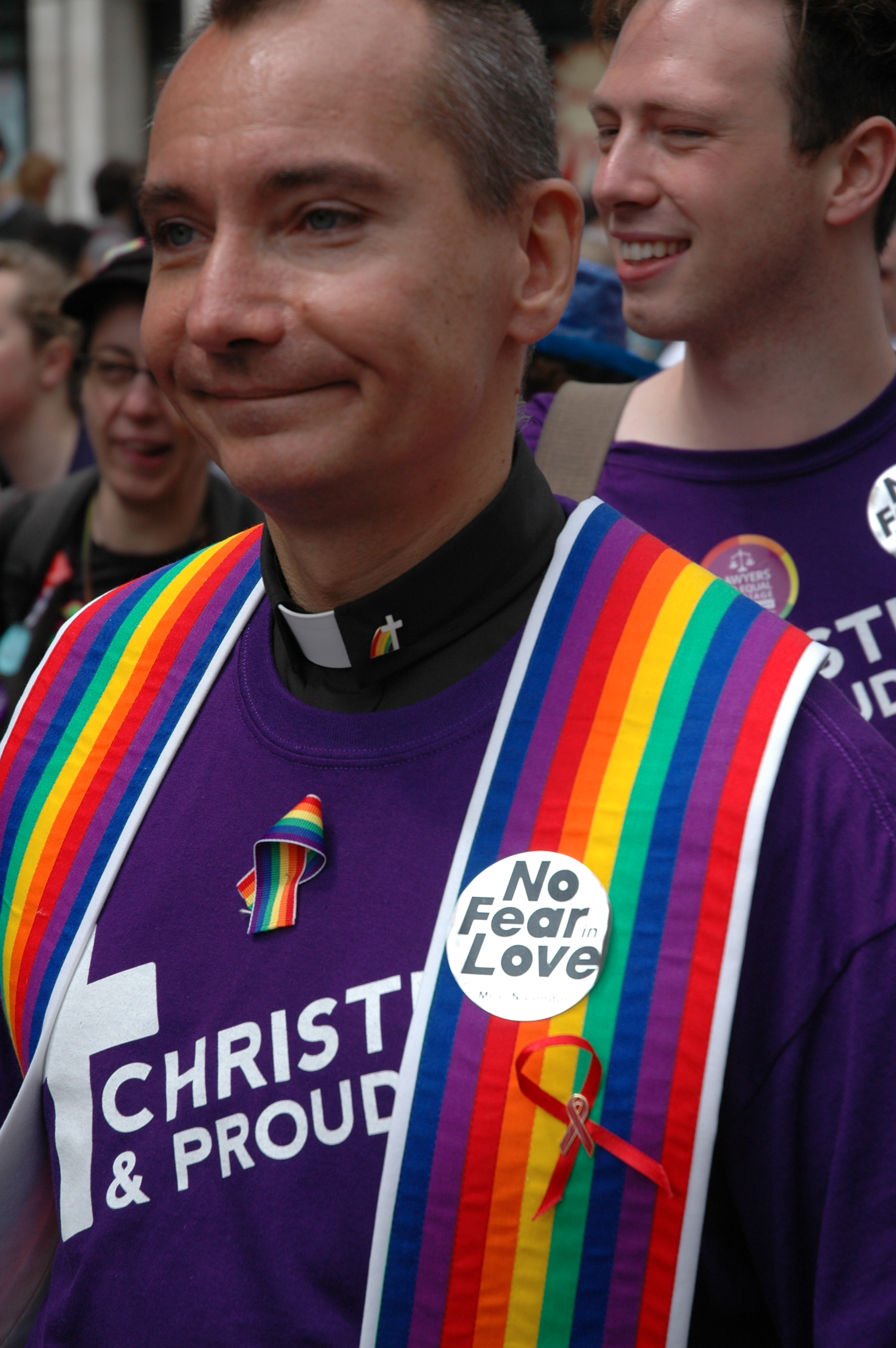 Christian and Proud - World Pride London 2012